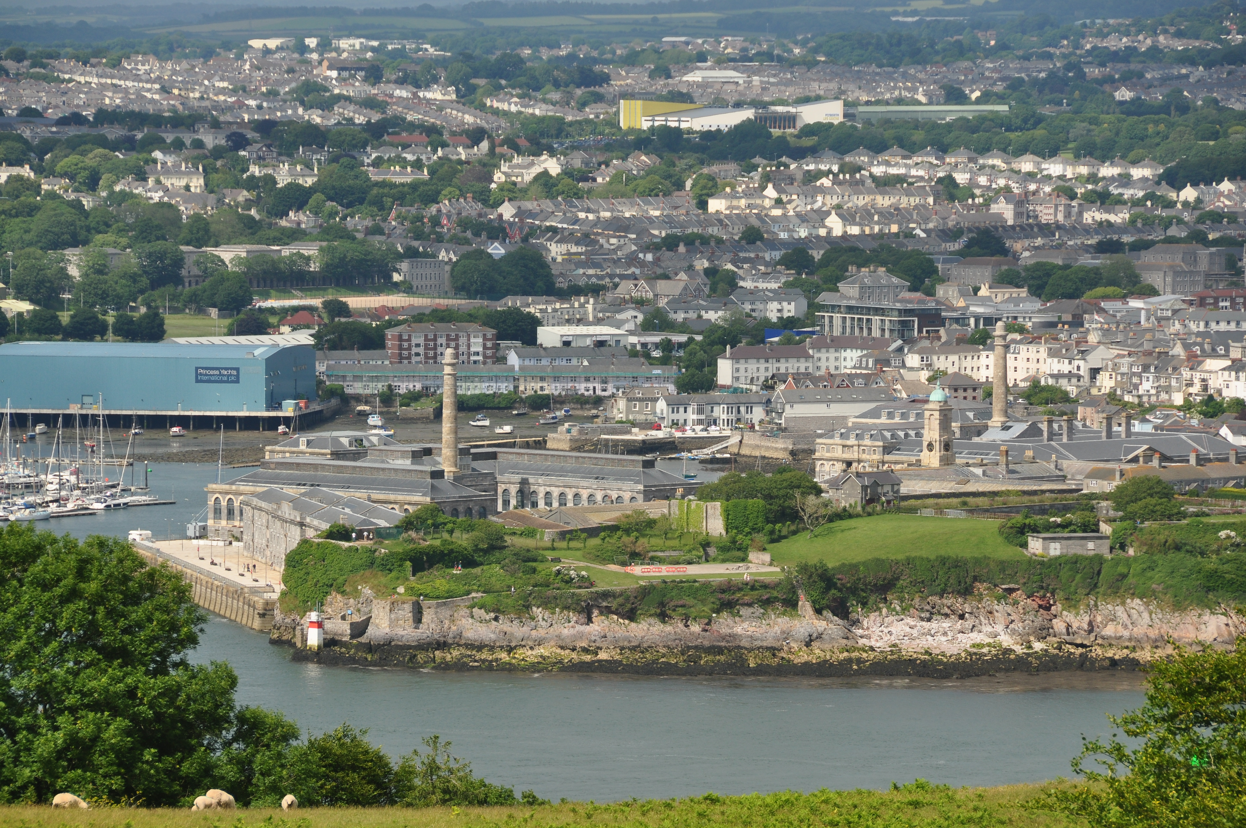 Royal William Victualling Yard and Devil's Point from Mount Edgcumbe